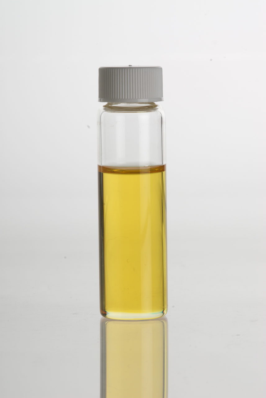 Melissa (Melissa officinalis) Essential Oil in clear glass vial